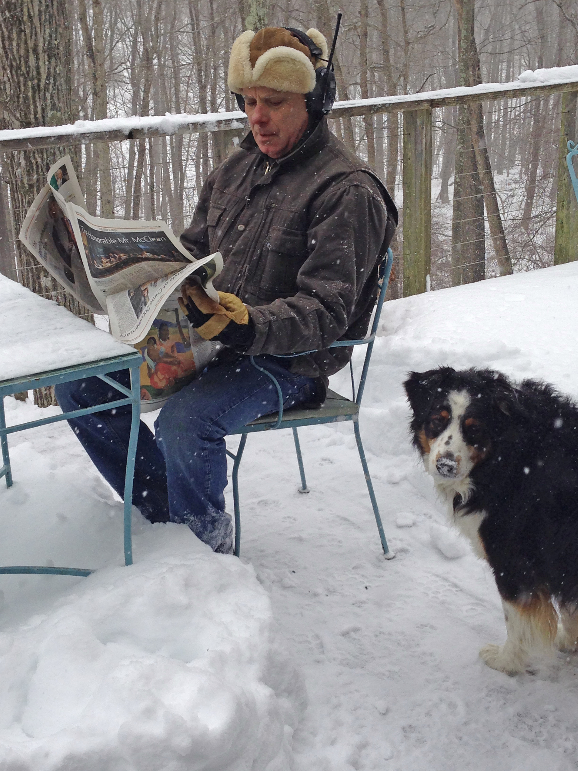 Artist portrait